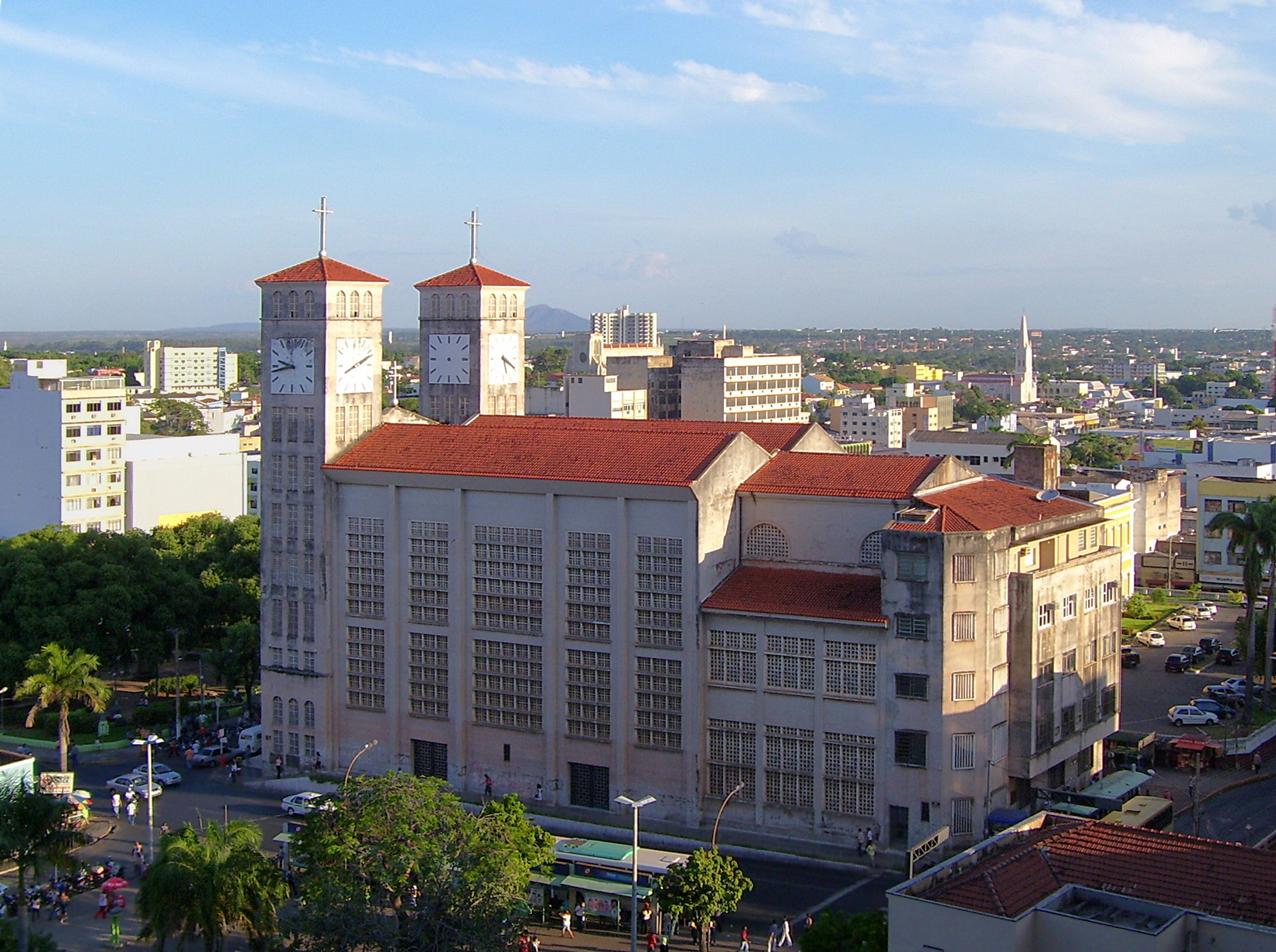 View of the Metropolitan Cathedral from the City Hall, in Cuiabá, Mato Grosso, Brazil